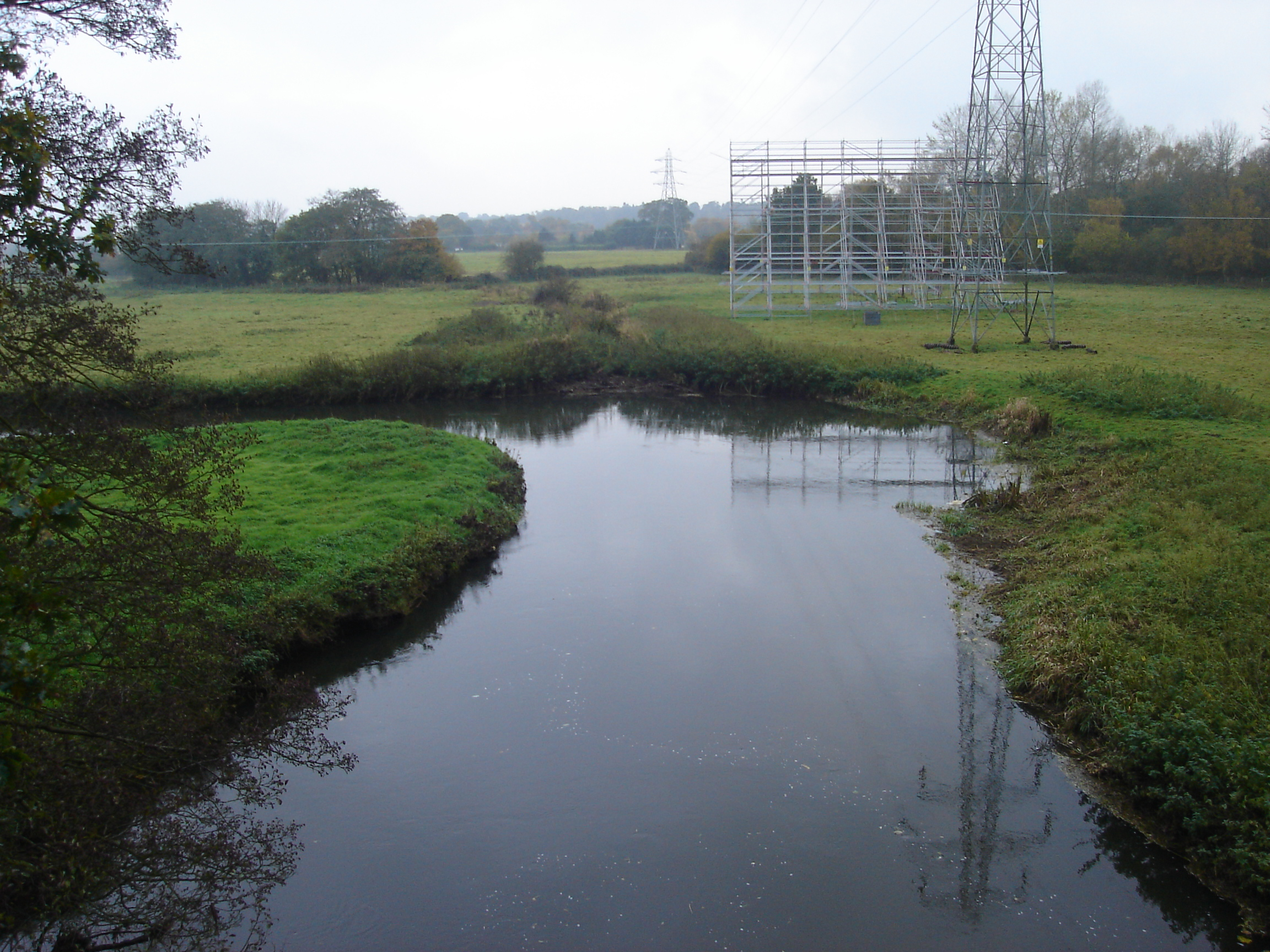 Picture of the River Wensum from the Marriott's Way long distance footpath below the village of Attlebridge, Norfolk